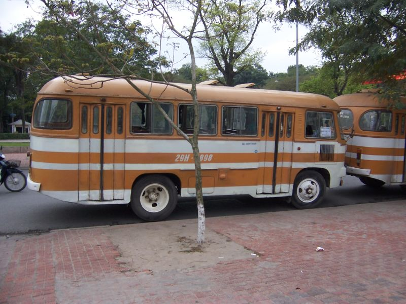 Bus in Hanoi, Vietnam100_9539